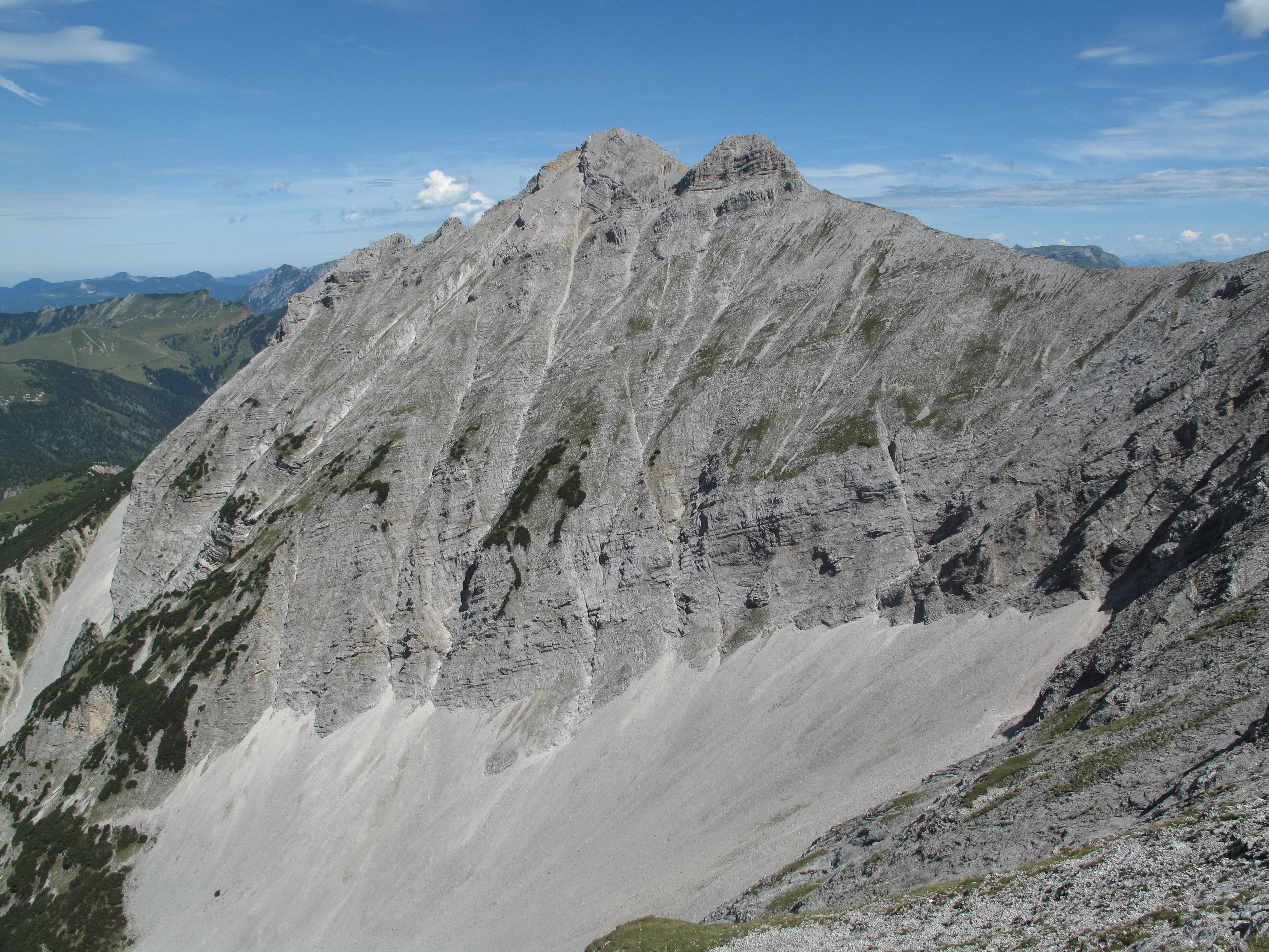 Bettlerkarspitze, Karwendel von der Schaufelspitze